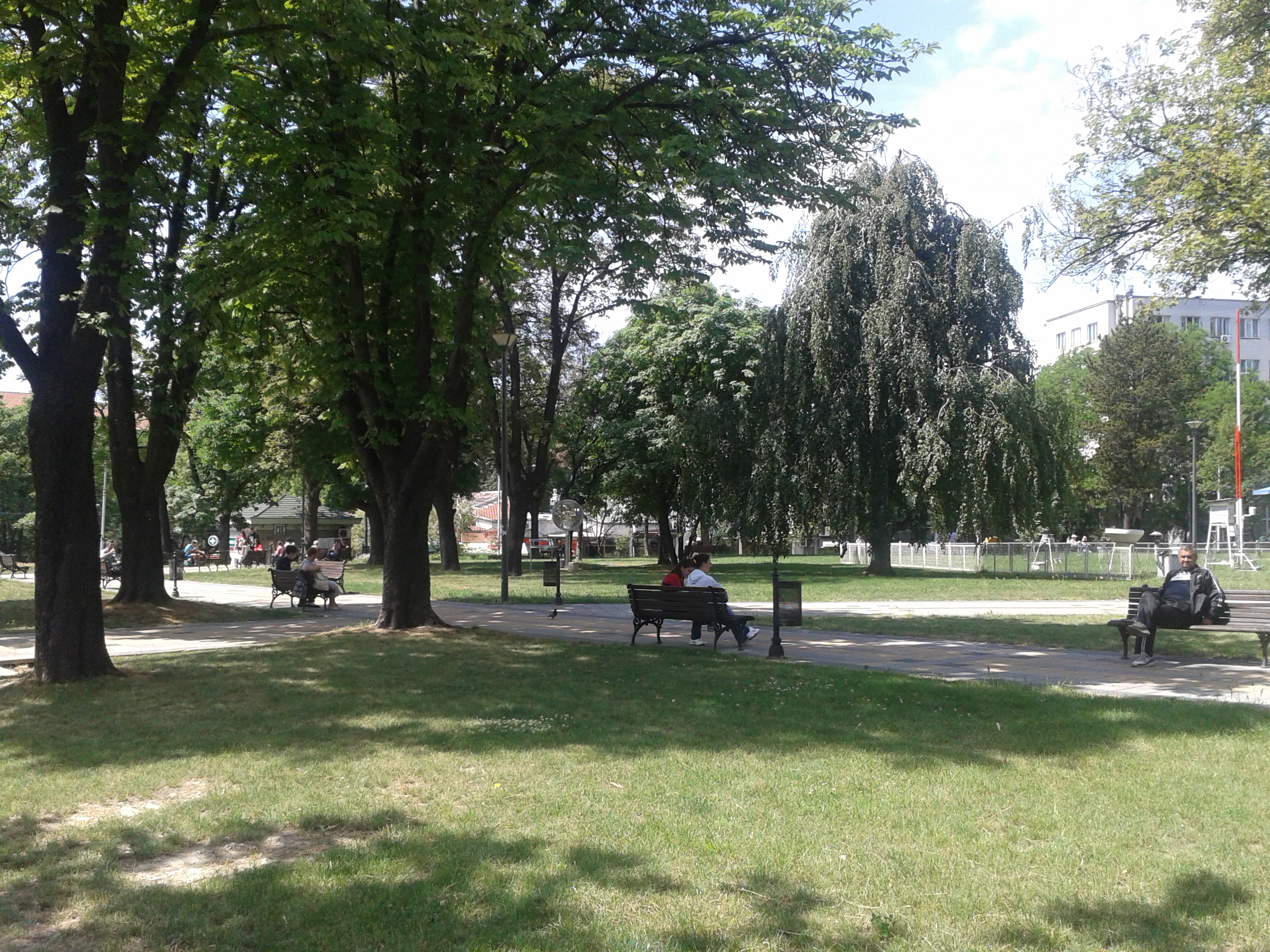 Park Milutin Milanković, Belgrade, Savski Venac